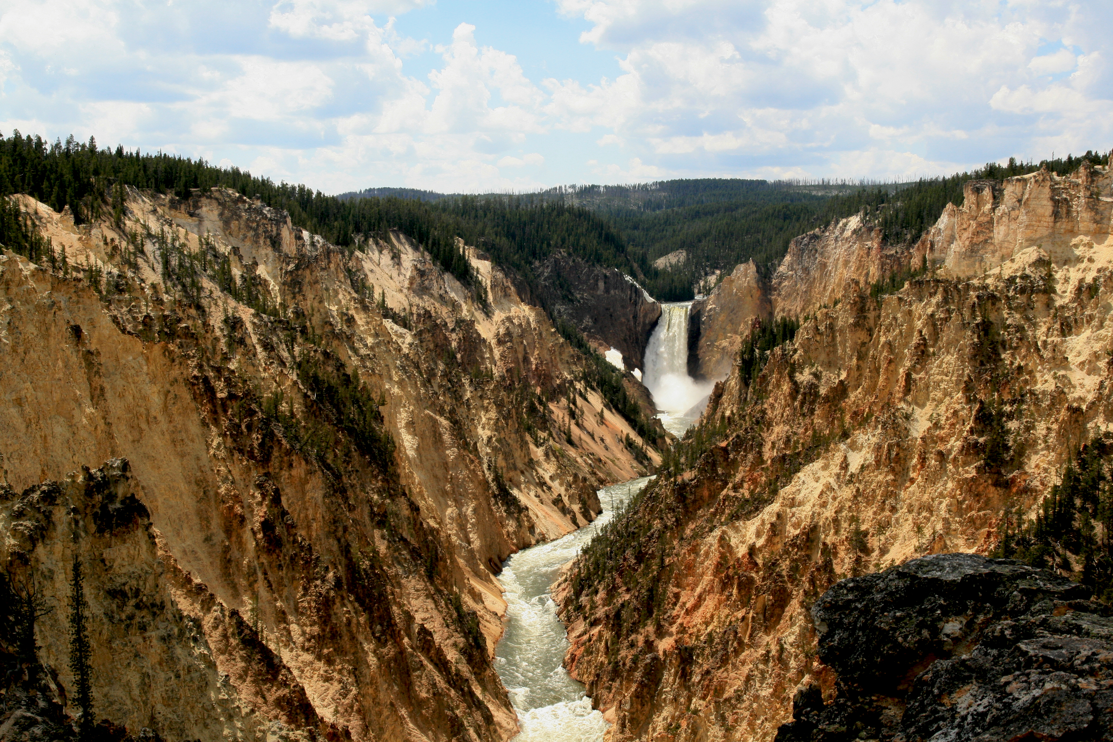 Grand Canyon and Yellowstone Falls at Yellowstone National Park. The canyon is up to 900 feet deep (275 m) and a half mile (0.8 km) in width. The canyon below the Lower Yellowstone Falls was at one time the site of a geyser basin that was the result of rhyolite lava flows, extensive faulting, and heat beneath the surface (related to the hot spot). The rhyolite in the canyon contains a variety of different iron compounds. Exposure to the elements caused the rocks to change colors. The rocks are, in effect, oxidizing; the canyon is rusting. The colors indicate the presence or absence of water in the individual iron compounds. Most of the yellows in the canyon are the result of iron present in the rock rather than sulfur.